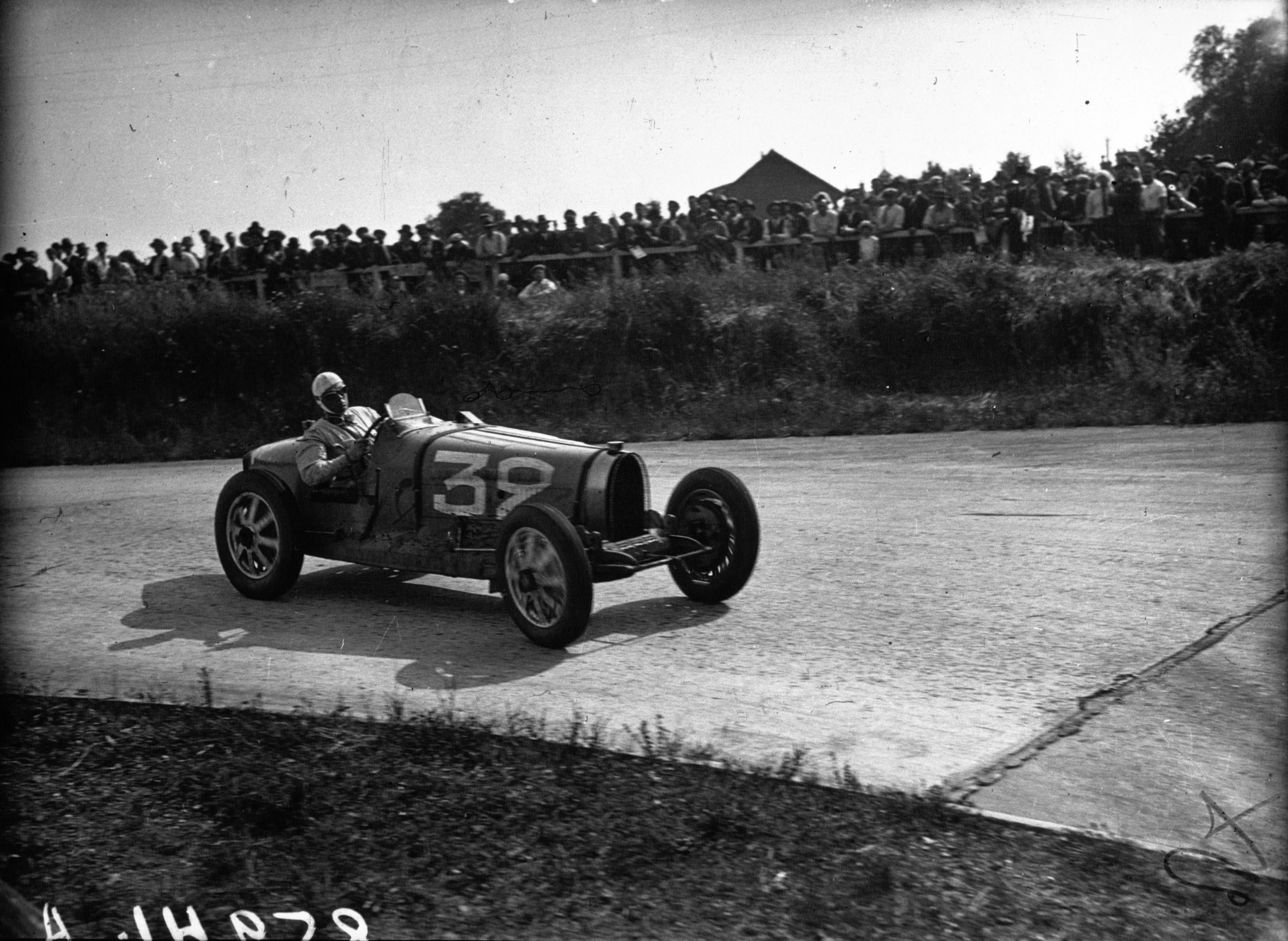 Achille Varzi at the 1931 French Grand Prix with Bugatti T51